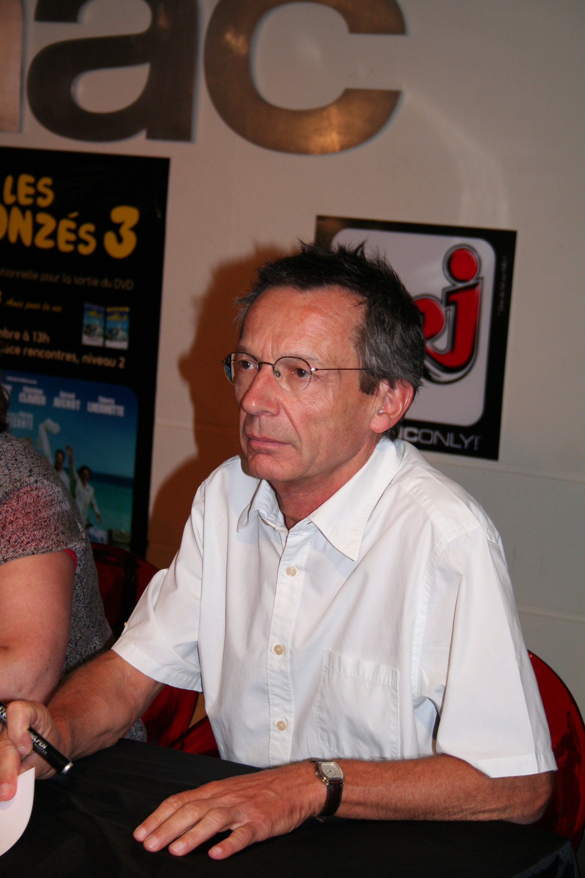 Autograph session with Patrice Leconte at Fnac des Halles (Paris, France).